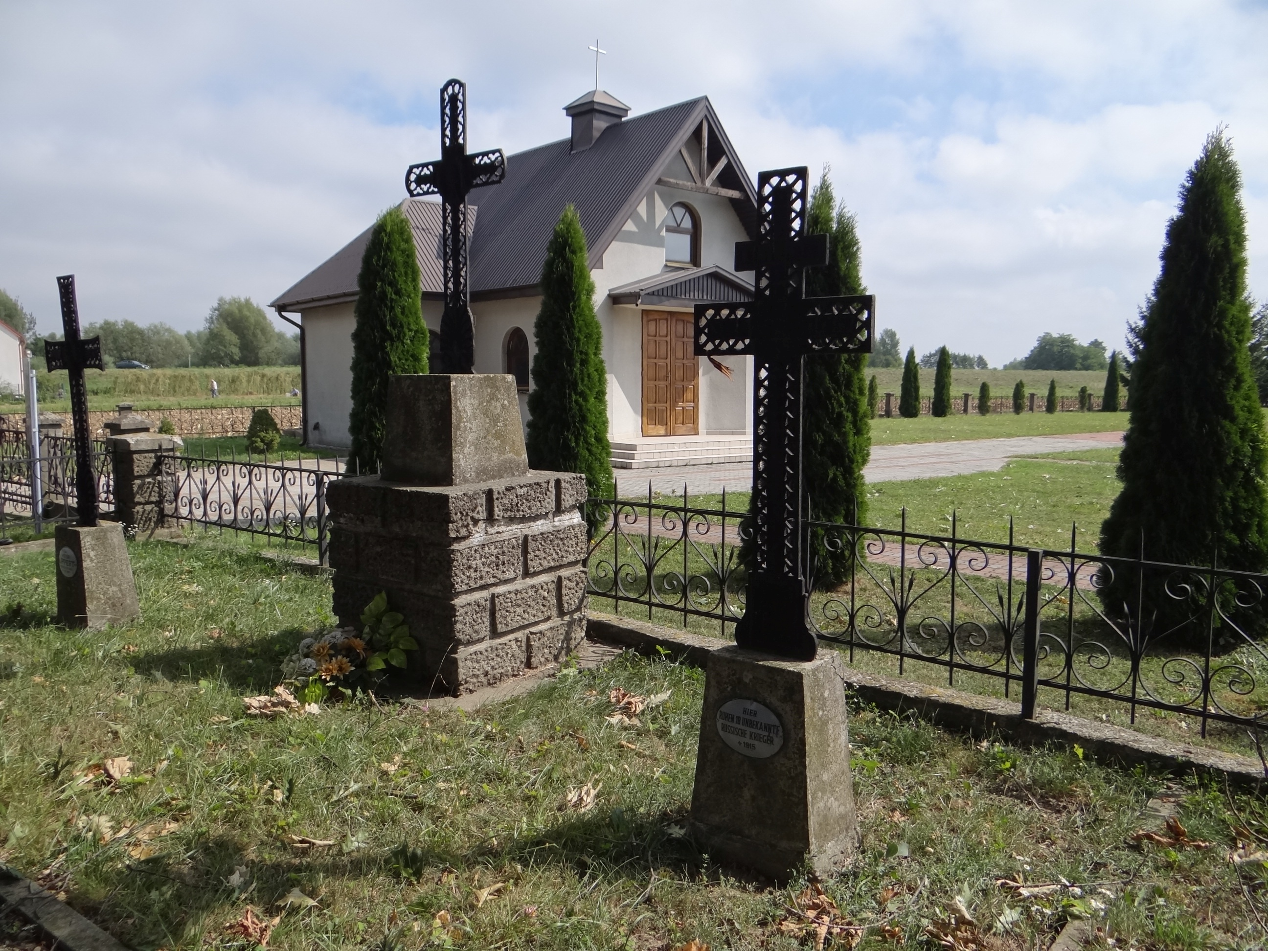 World War I Cemetery nr 211 in Siedlec